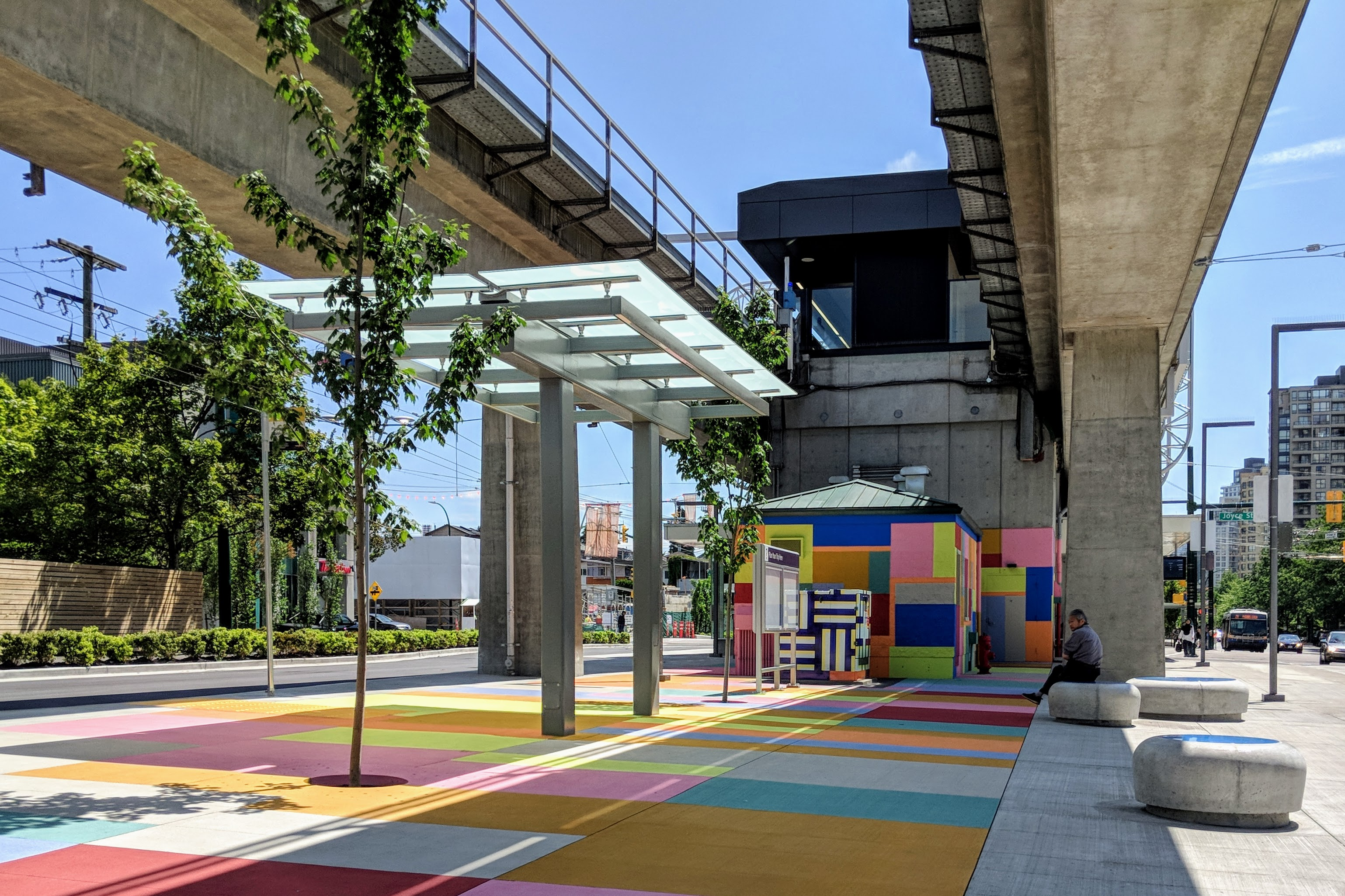 Joyce–Collingwood station viewed from the west. June 2019.